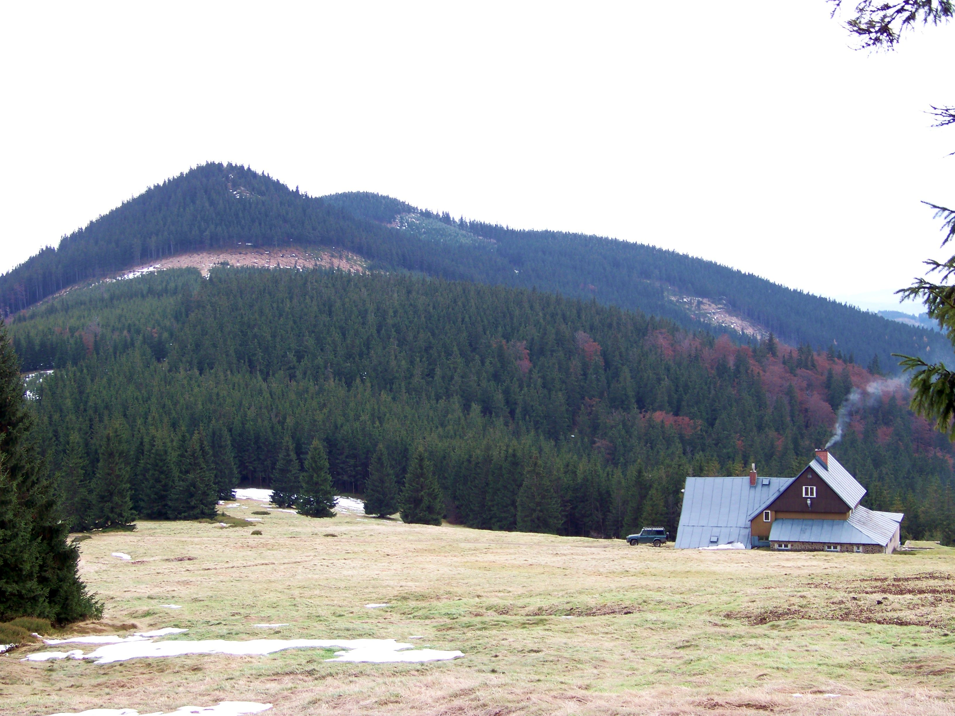 Rokytnice nad Jizerou-Rokytno, Semily District, Liberec Region, the Czech Republic. Dvoračky, a view of Vlčí hřeben and Technometra cottage.